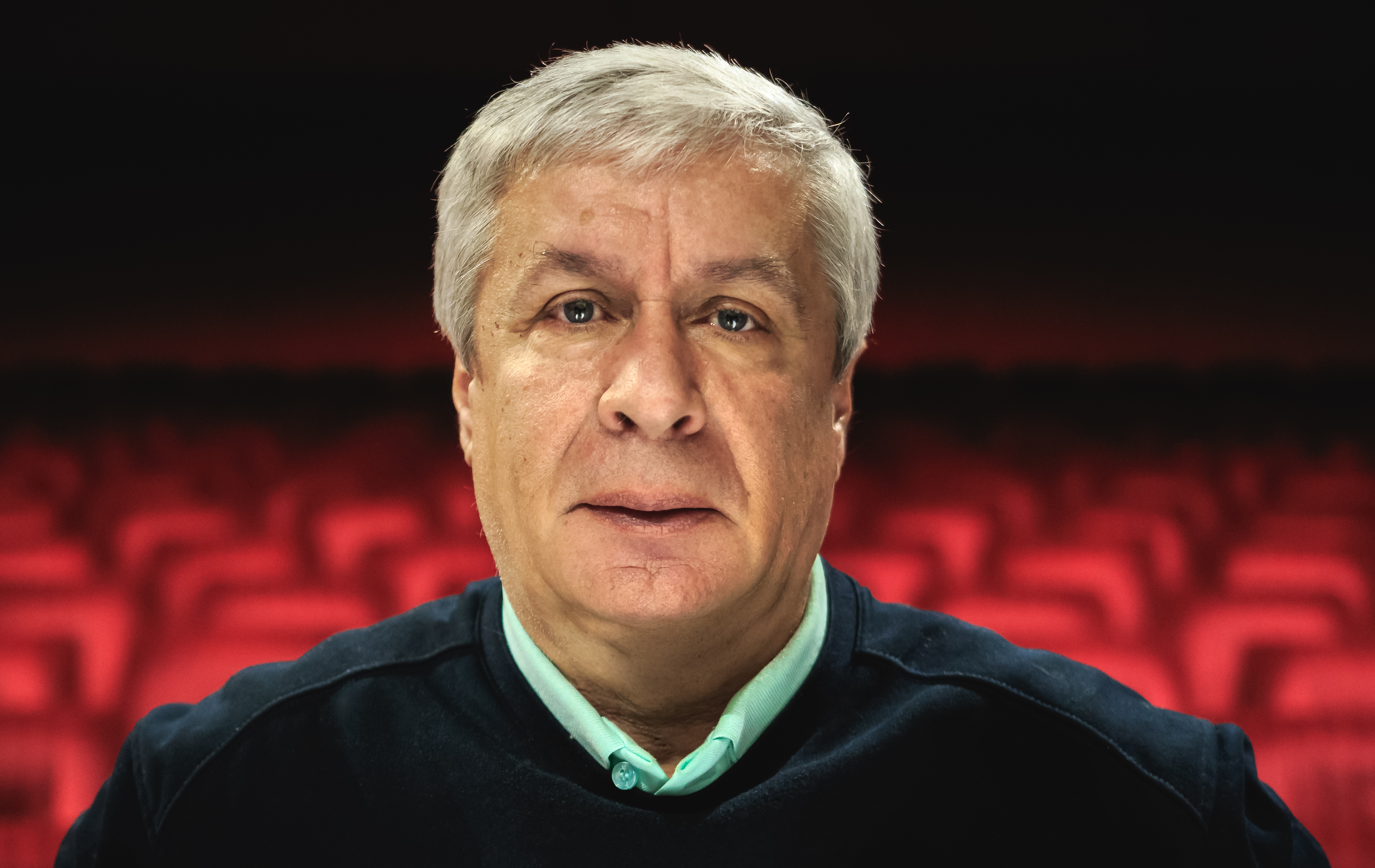 A Photograph from Gjorgji Todorovski, actor, for the project "Theatre Actors In Macedonia"